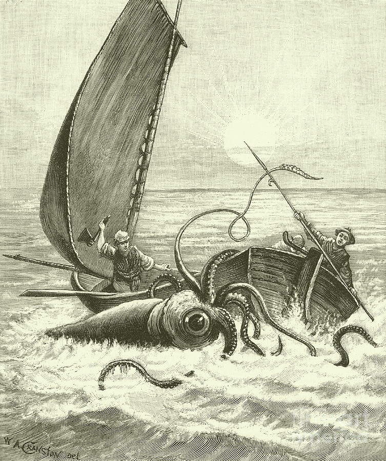 Engraving showing a giant squid attacking a boat